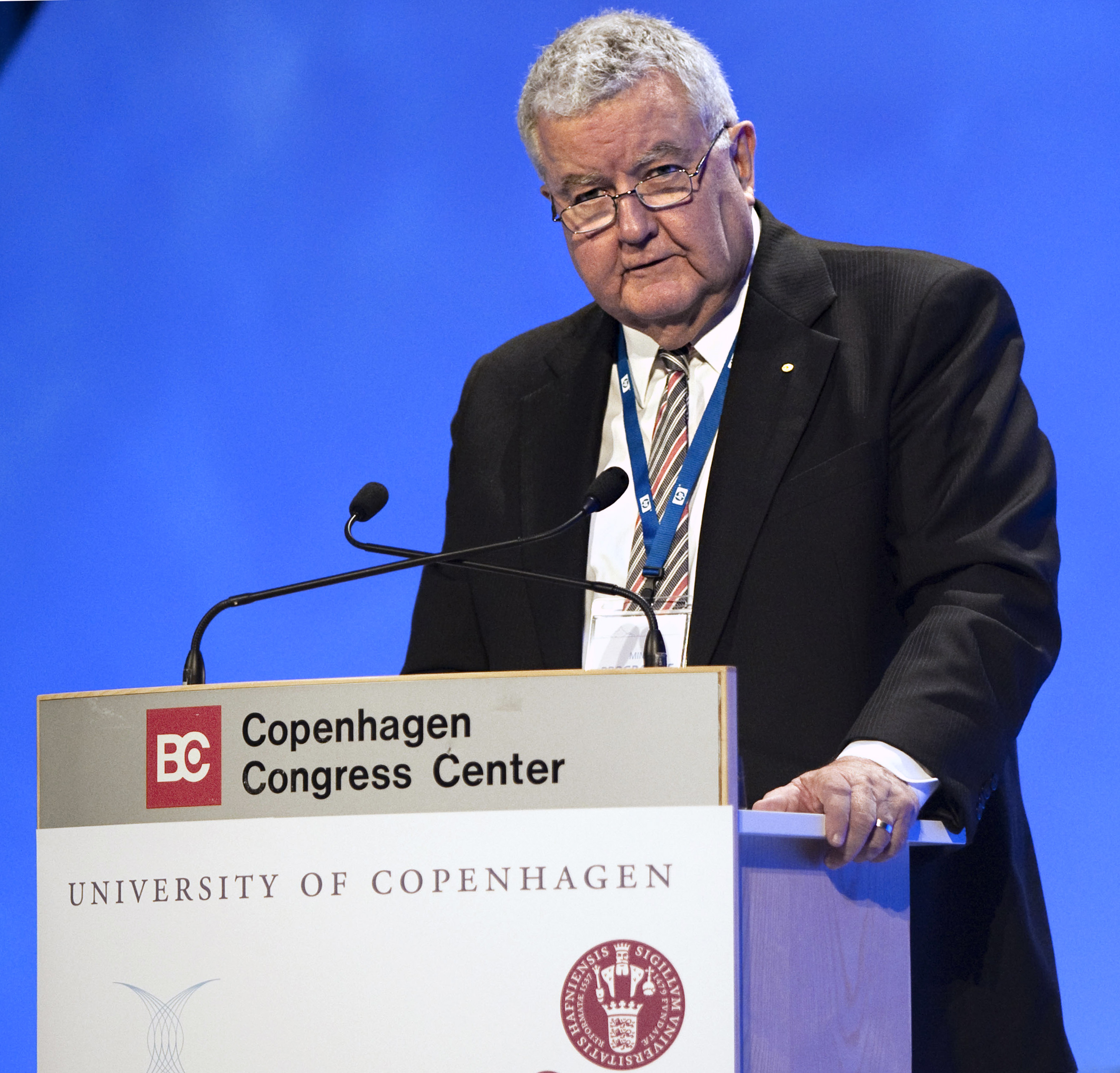 Prof. Ian Chubb, ANU President and IARU President at the Climate congress, Copenhagen 2009, March 10-12. Opening session.